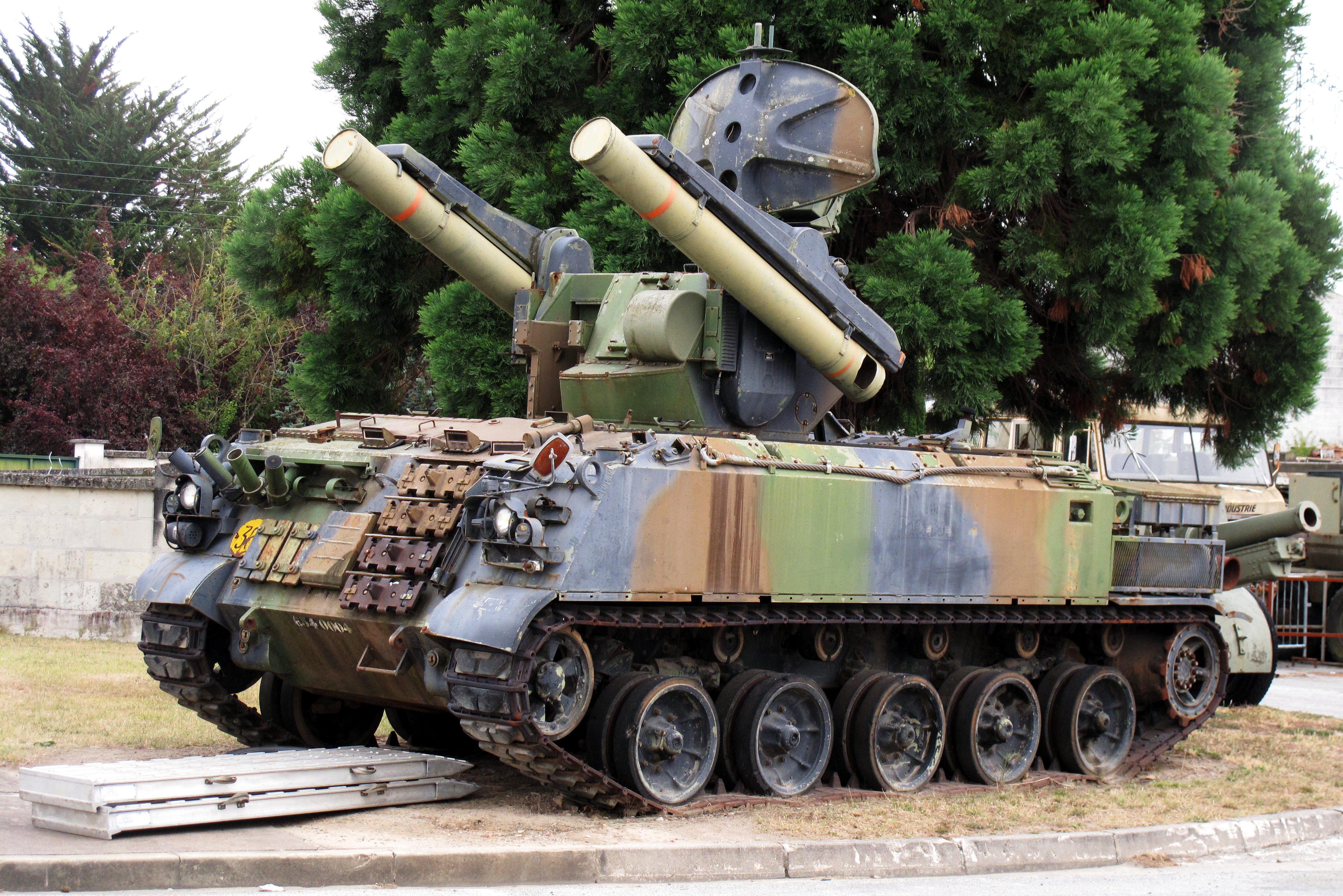 AMX-30 Roland